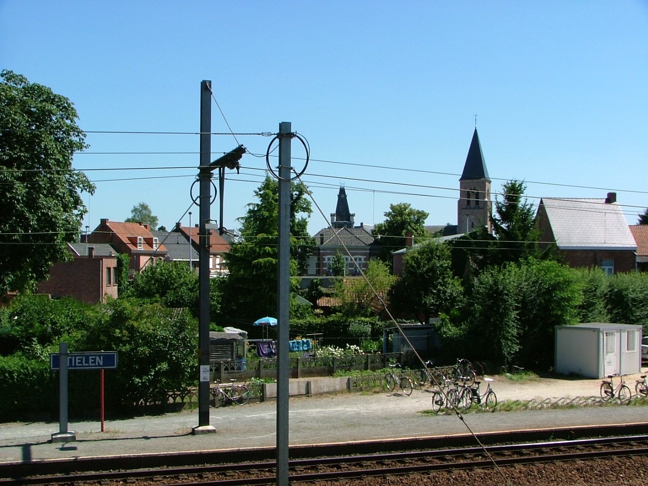 View on Tielen village and church from across the railway station.